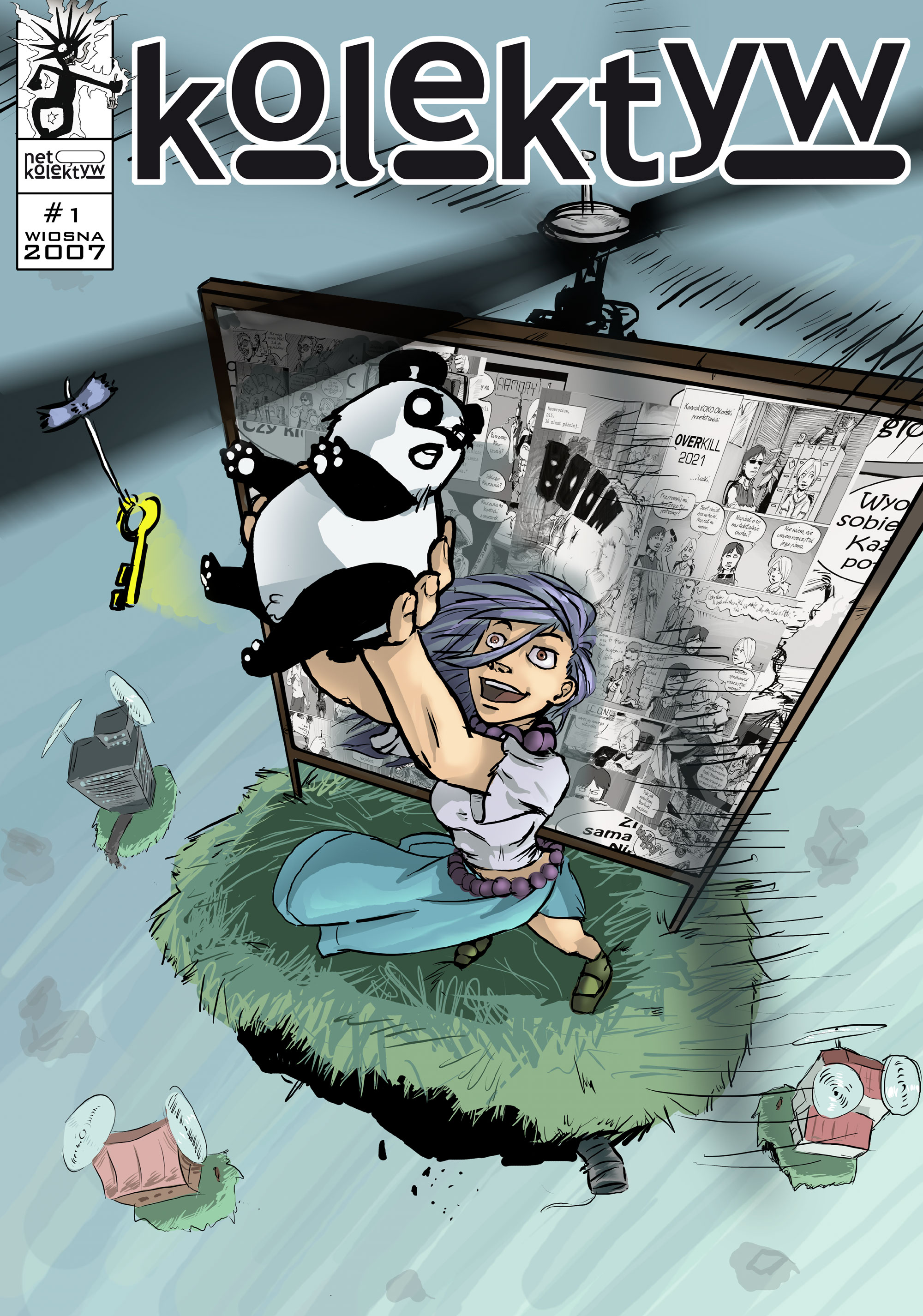 Cover for issue #1 of the Polish Kolektyw comic magazine